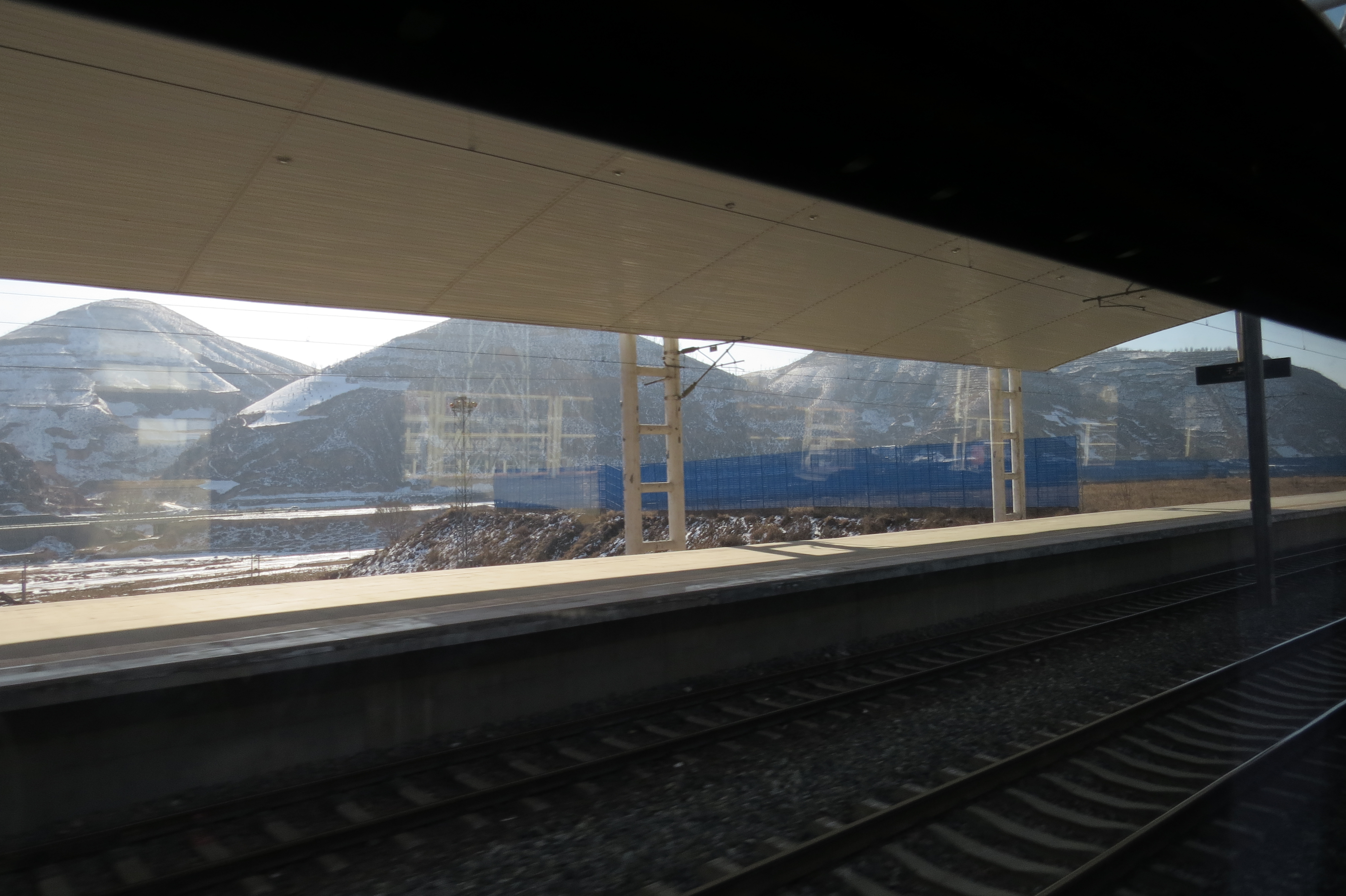 Taken from Z70.